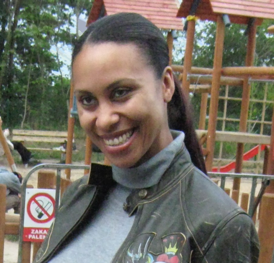 Vanessa Lancaster, Touch and Go